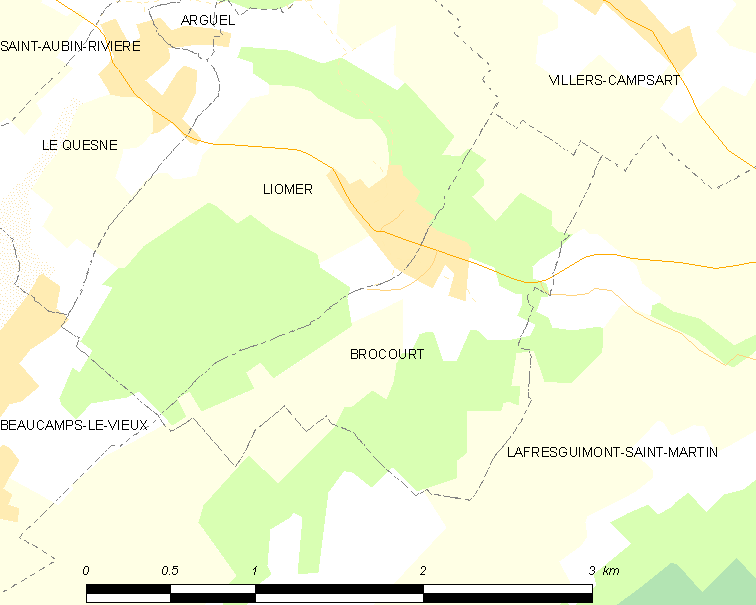 Map of French municipality Brocourt